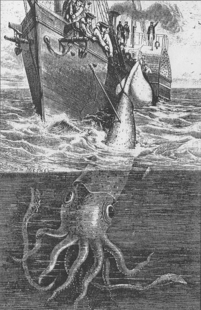 The Alecton attempts to capture a giant squid off Tenerife in 1861. Illustration from Henry Lee's Sea Monsters Unmasked, London, 1884.